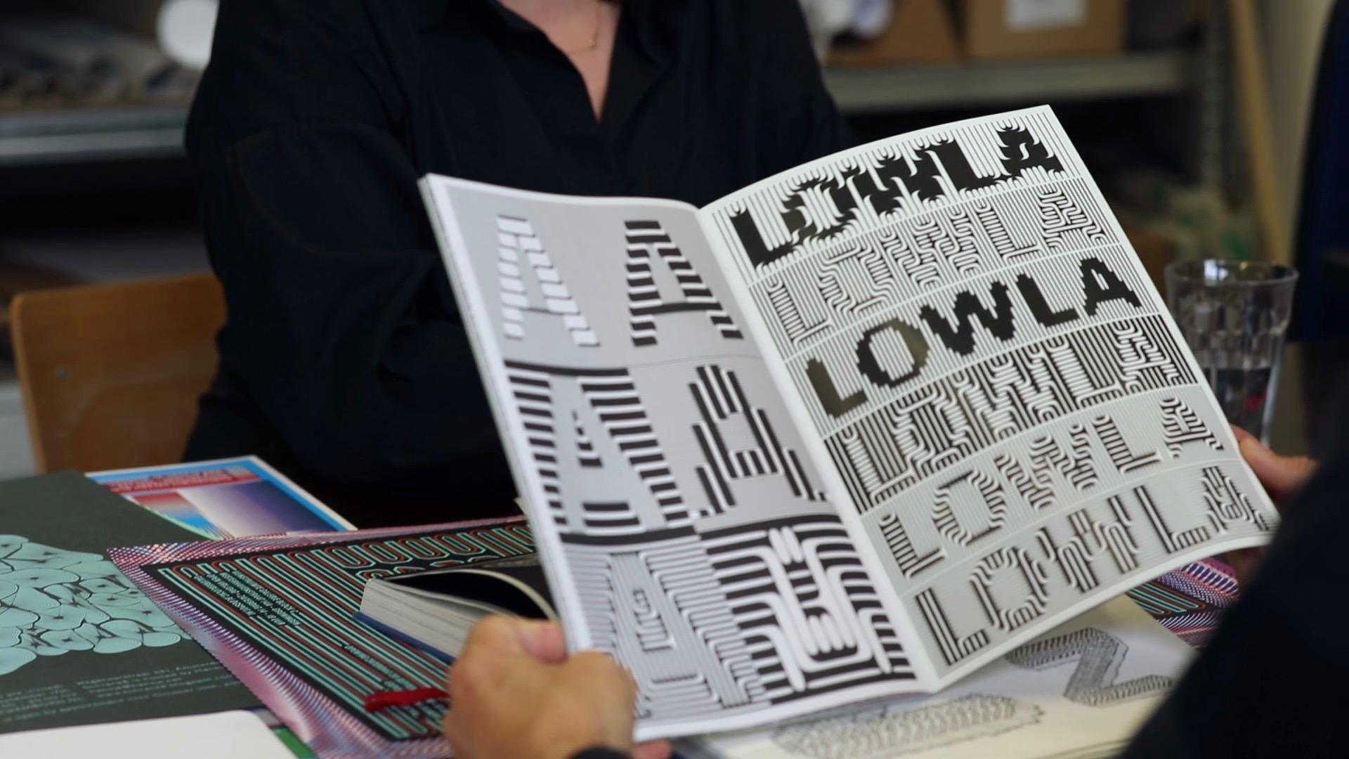 Selection of graphic designs by Hansje van Halem for the Lowlands festival. Still from video interview with Hansje van Halem at